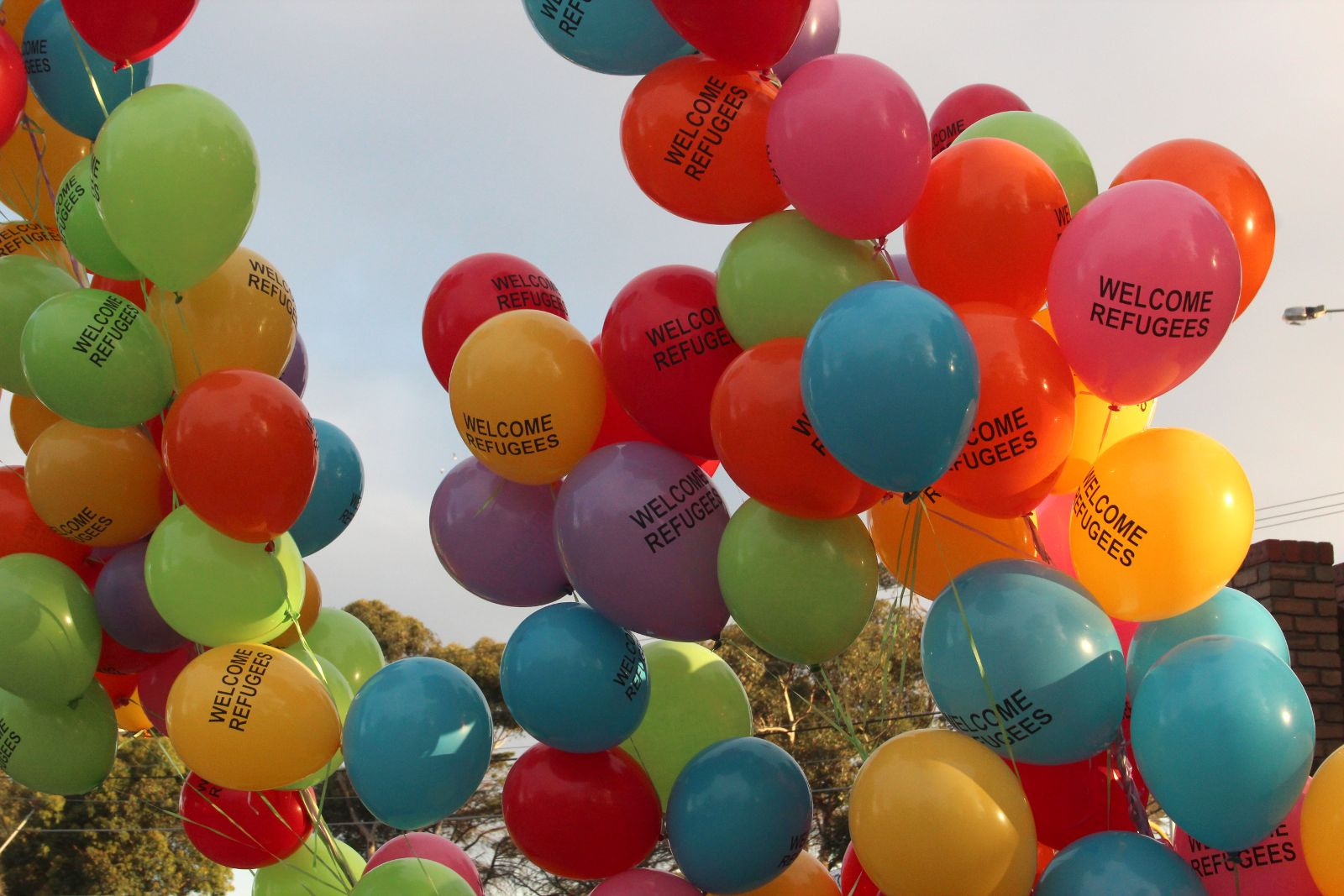 Balloons at a vigil organised by the Refugee Action Collective of Victoria, in solidarity with two Iranian refugees on hunger strike at the Broadmeadows immigration detention centre in Melbourne, January 18, 2012.